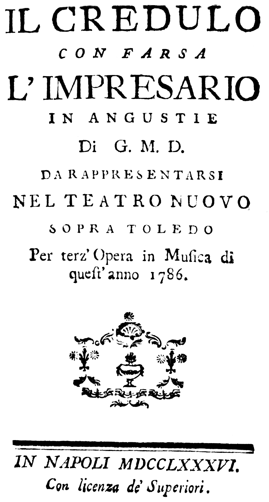 Domenico Cimarosa - L'impresario in angustie - title page of the libretto - Naples 1786